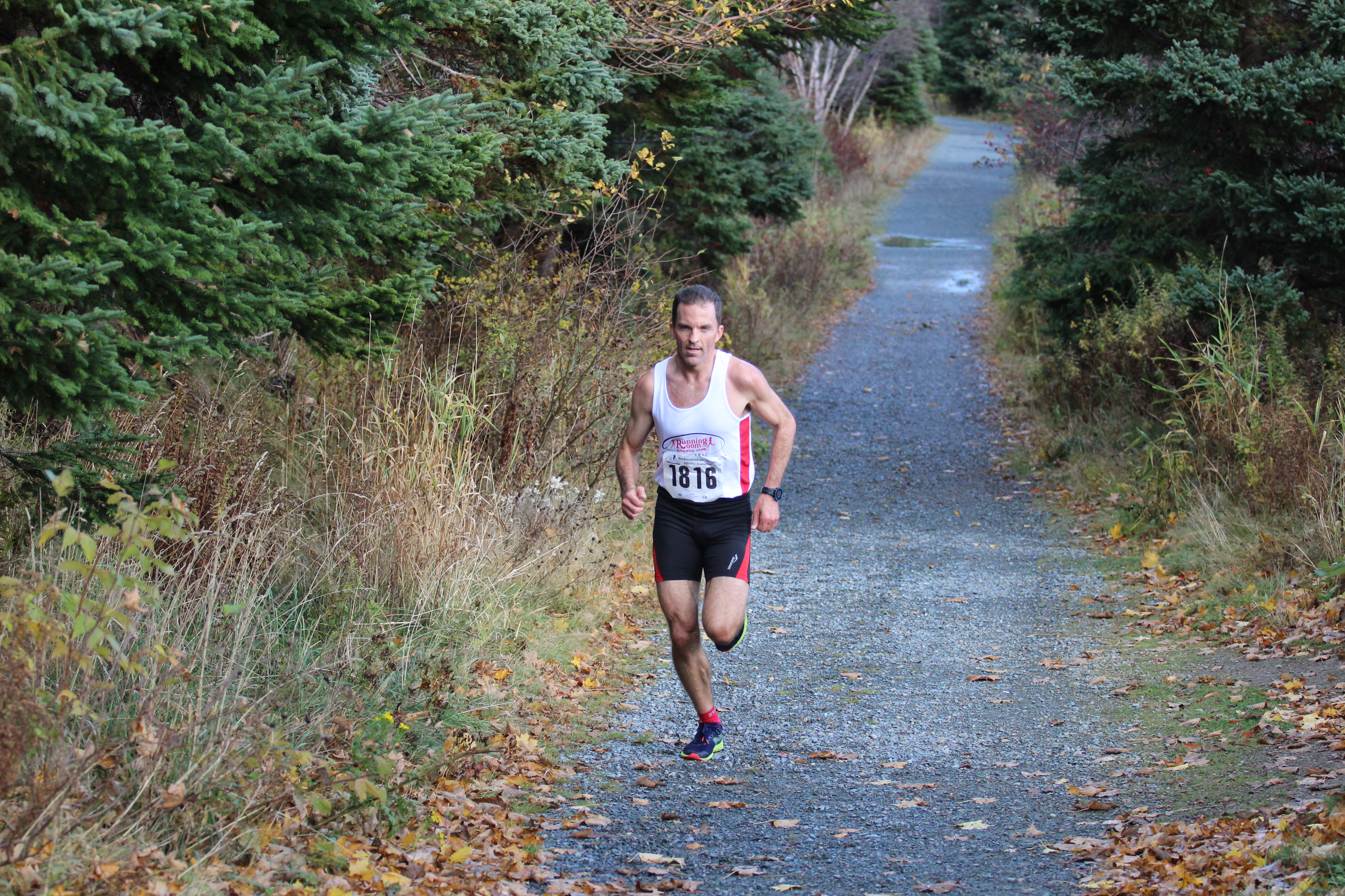 Fewer competing in an NLAA XC Race.